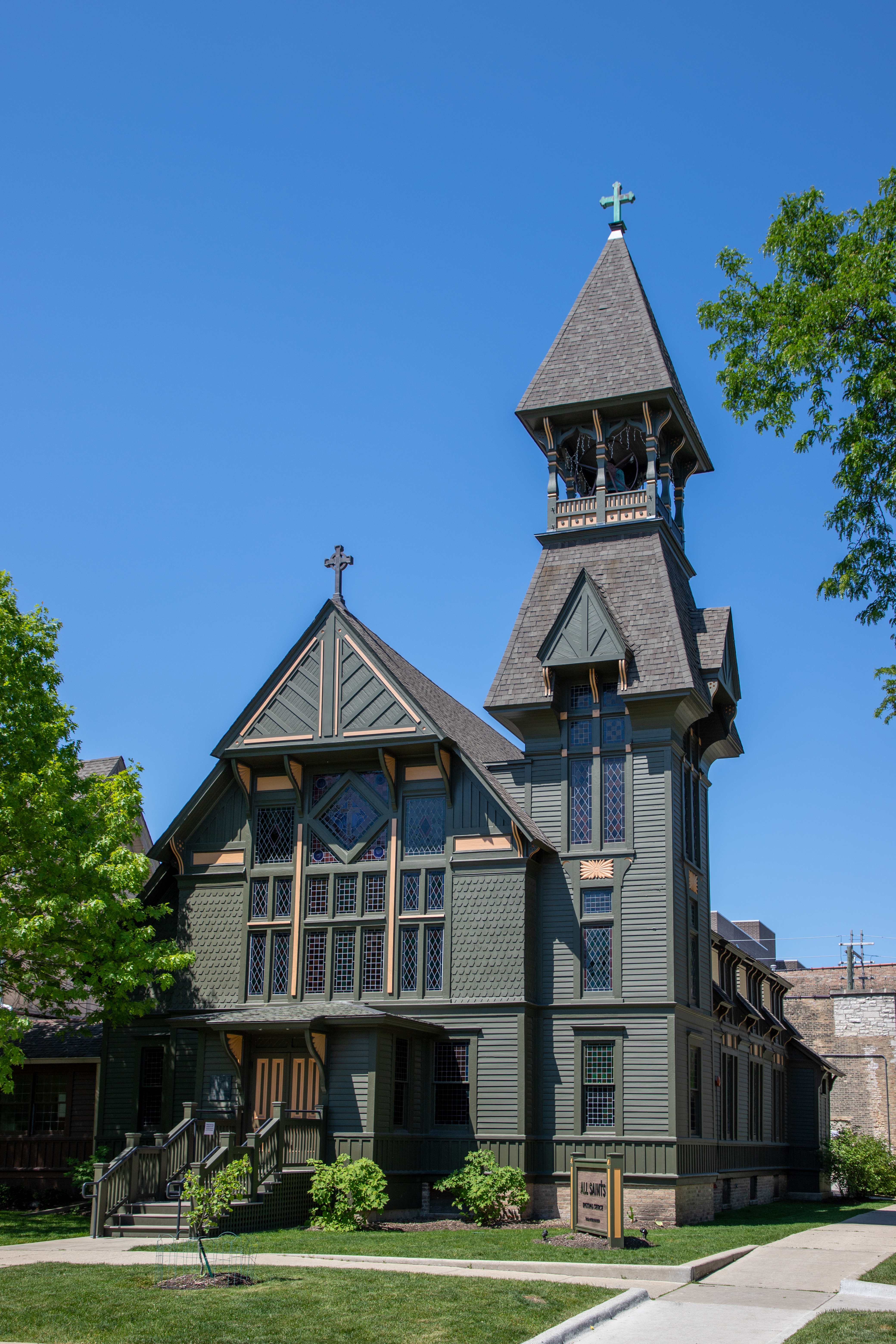 All Saints Episcopal Church, 4550 N. Hermitage Avenue, Chicago, Illinois. Constructed: 1883. Architect: John C. Cochrane, with stained glass by the firm of Healy & Millet. It was built in the stick style, a rare example in Chicago. The structure is the city's oldest frame church; it was declared a Chicago Landmark in 1982. The bell both announced services and summoned volunteer fire department members in the community. A noted parishioner was Carl Sandburg, whose residence is located a block north of the church.